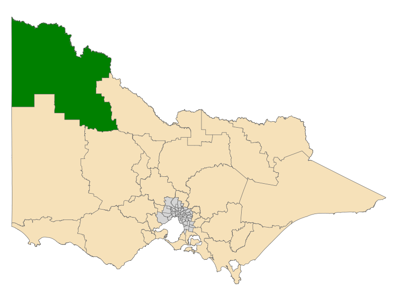 Location of the Electoral District of Mildura (dark green) in the state of Victoria, Australia. These boundaries were used for the Victorian state election on 29 November 2014.